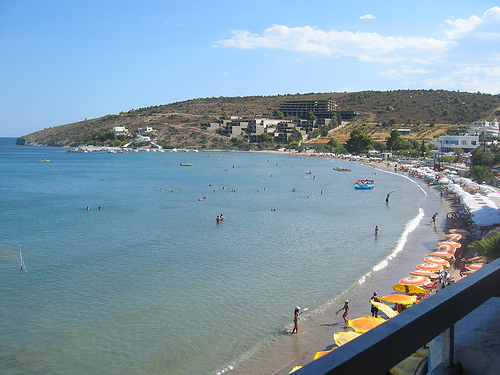 taken by Kenneth Centurion 8/19/2006